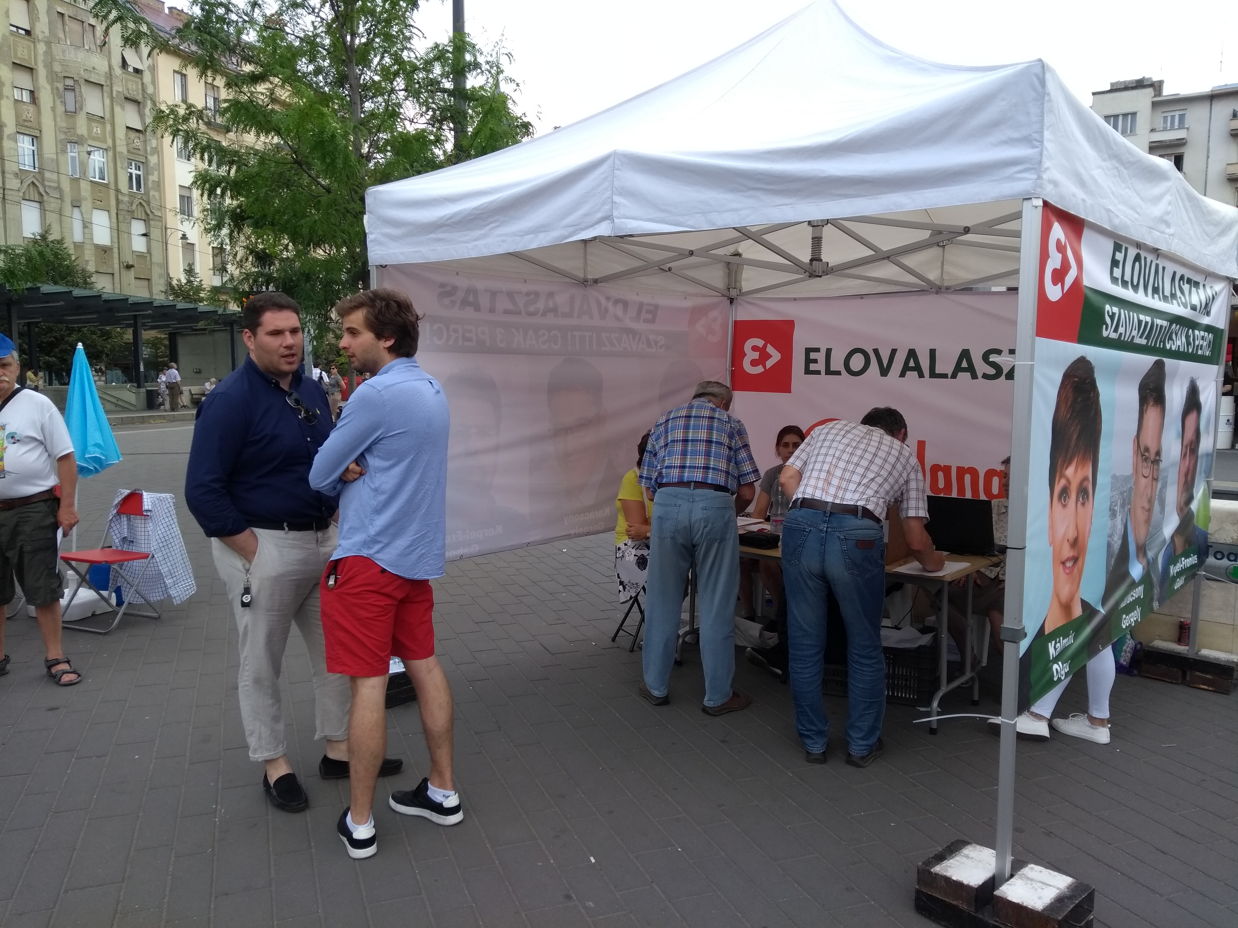 Voting tent on Móricz Zsigmond körtér, Budapest, during the second round of the 2019 opposition primary for the joint mayor candidate of Budapest.